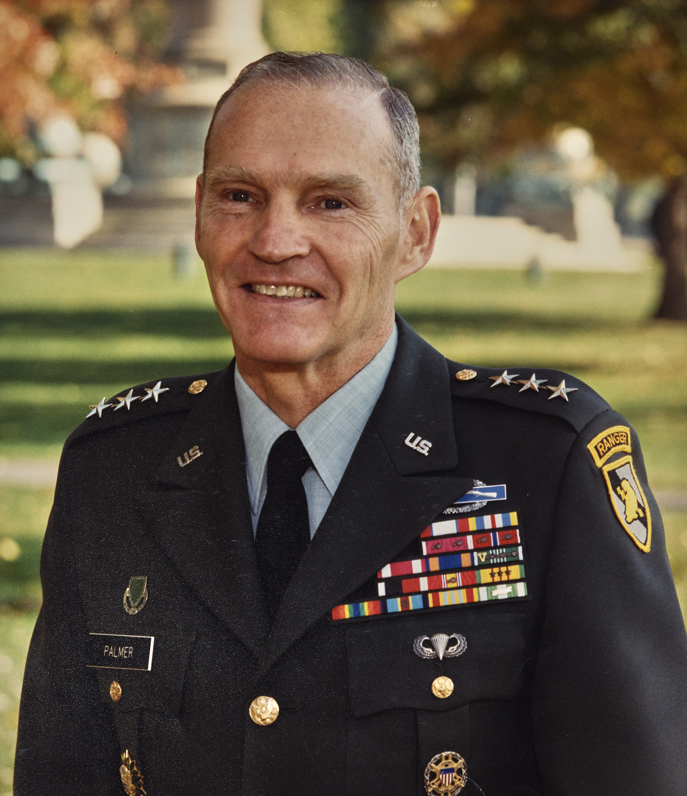 Official photograph of LTG David R. Palmer, the Superintendent of the United States Military Academy.